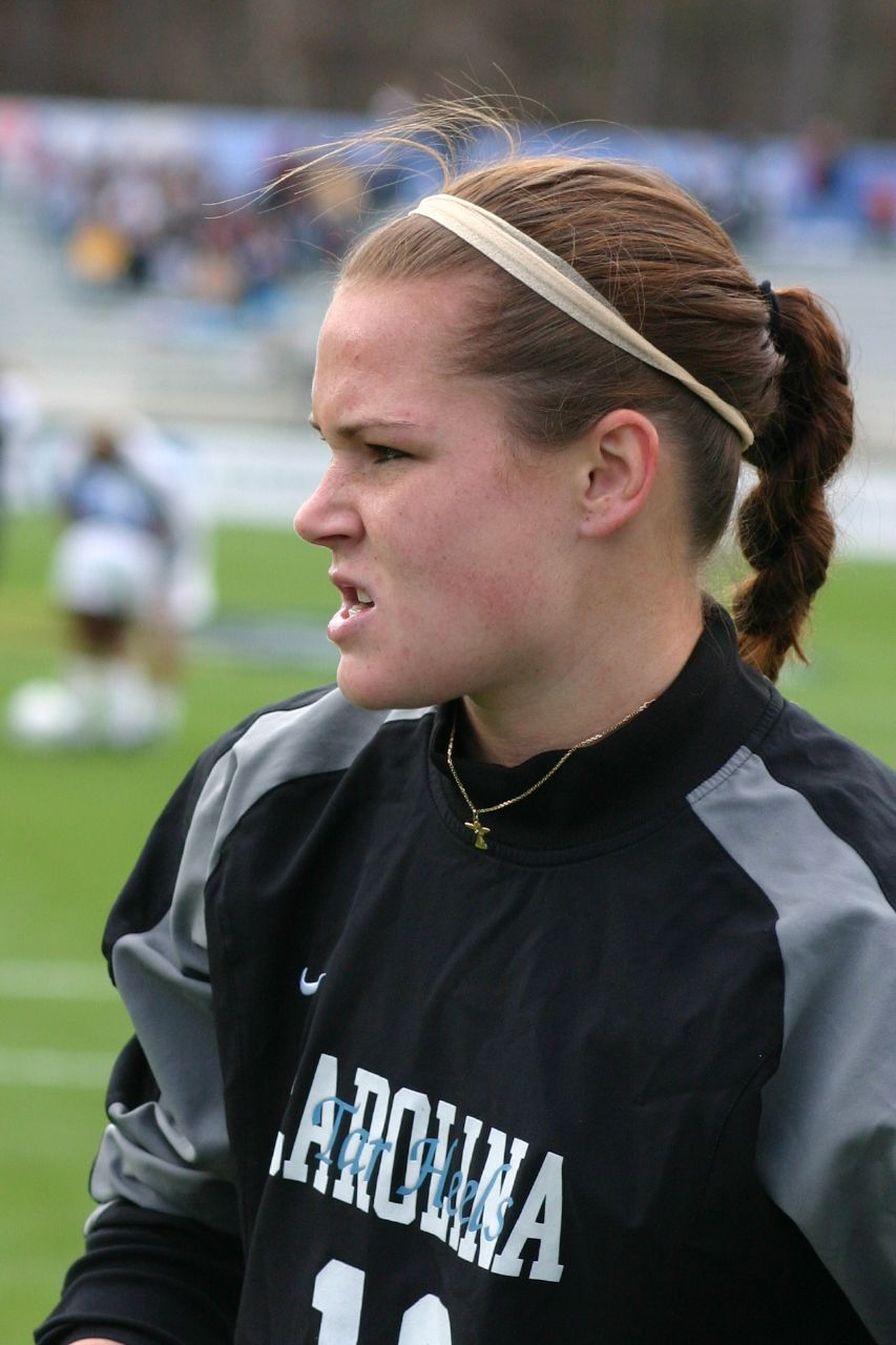 The UNC Tar Heels women defeated Notre Dame 2-1 to win their 18th national women's soccer title at SAS Soccer Park in Cary, NC on Sunday, December 3, 2006. UNC's goals were scored by Casey Nogueira and Heather O'Reilly.